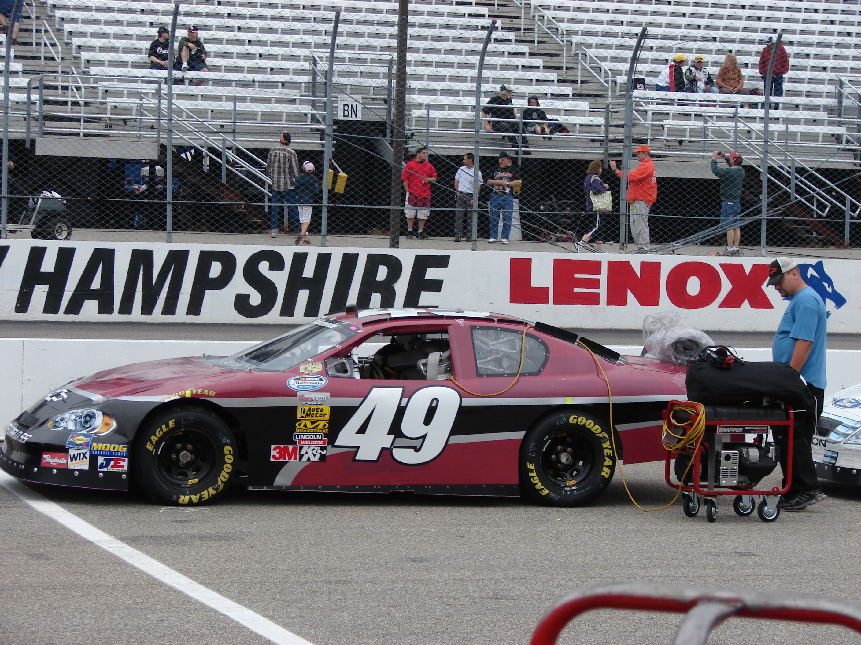 Picture of Kertus Car's #49 car while on pit road waiting to quailfy at New Hampshire Motor Speedway in 2008. picture taken by Eric Sturrock